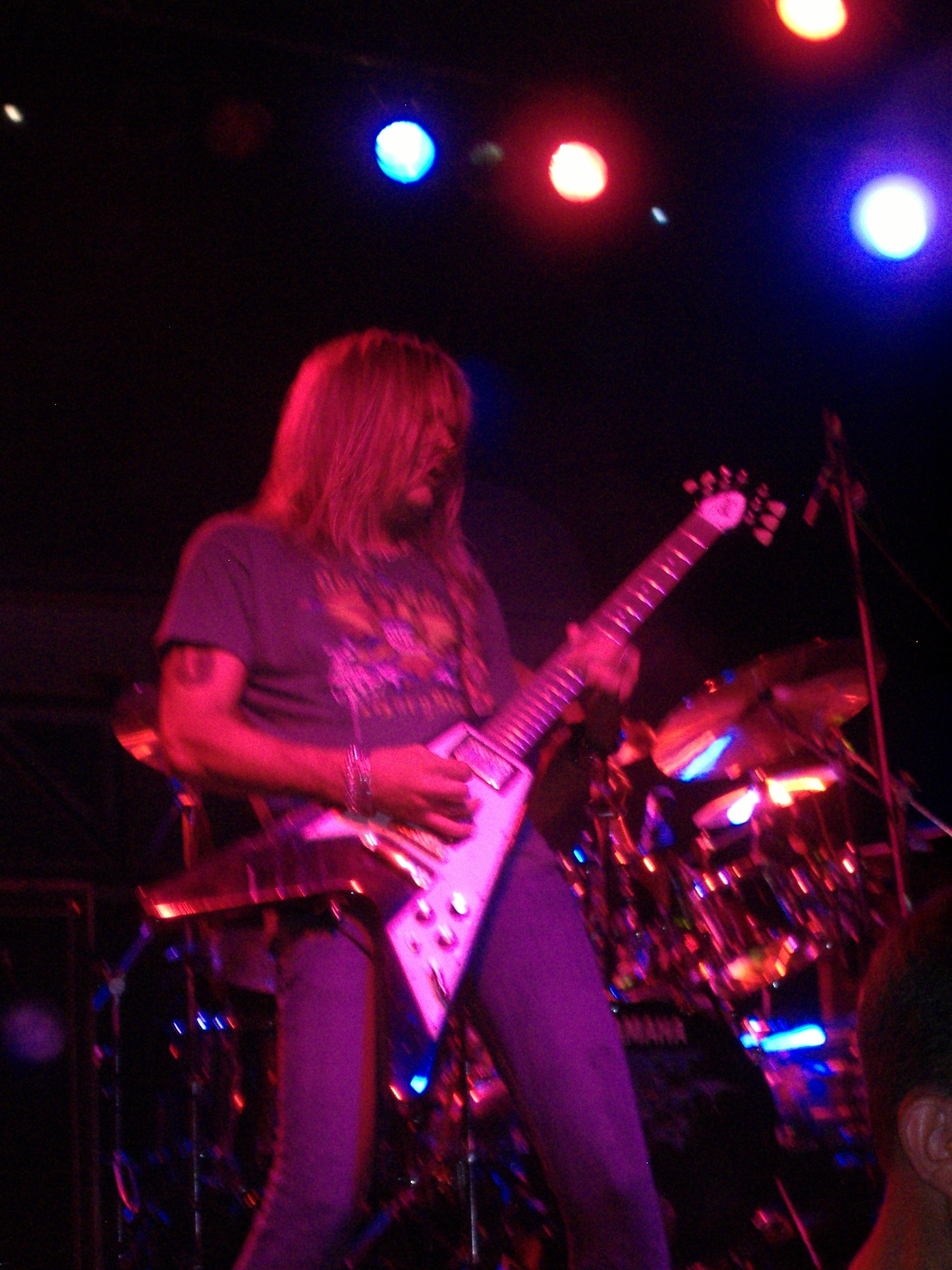 Carlos Cavazo (Ratt) at the Marquee Theater, Tempe, AZ